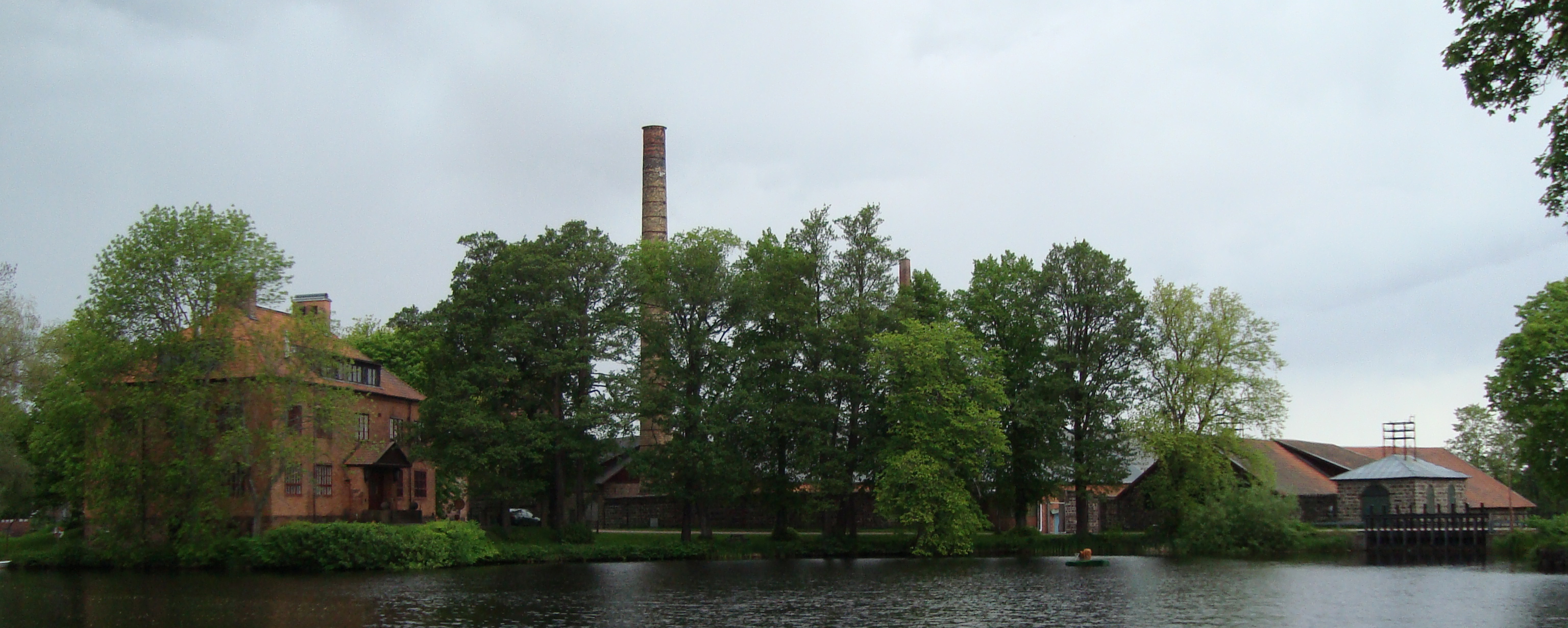 Old iron works of Forsbacka, Gävle Municipality, Sweden